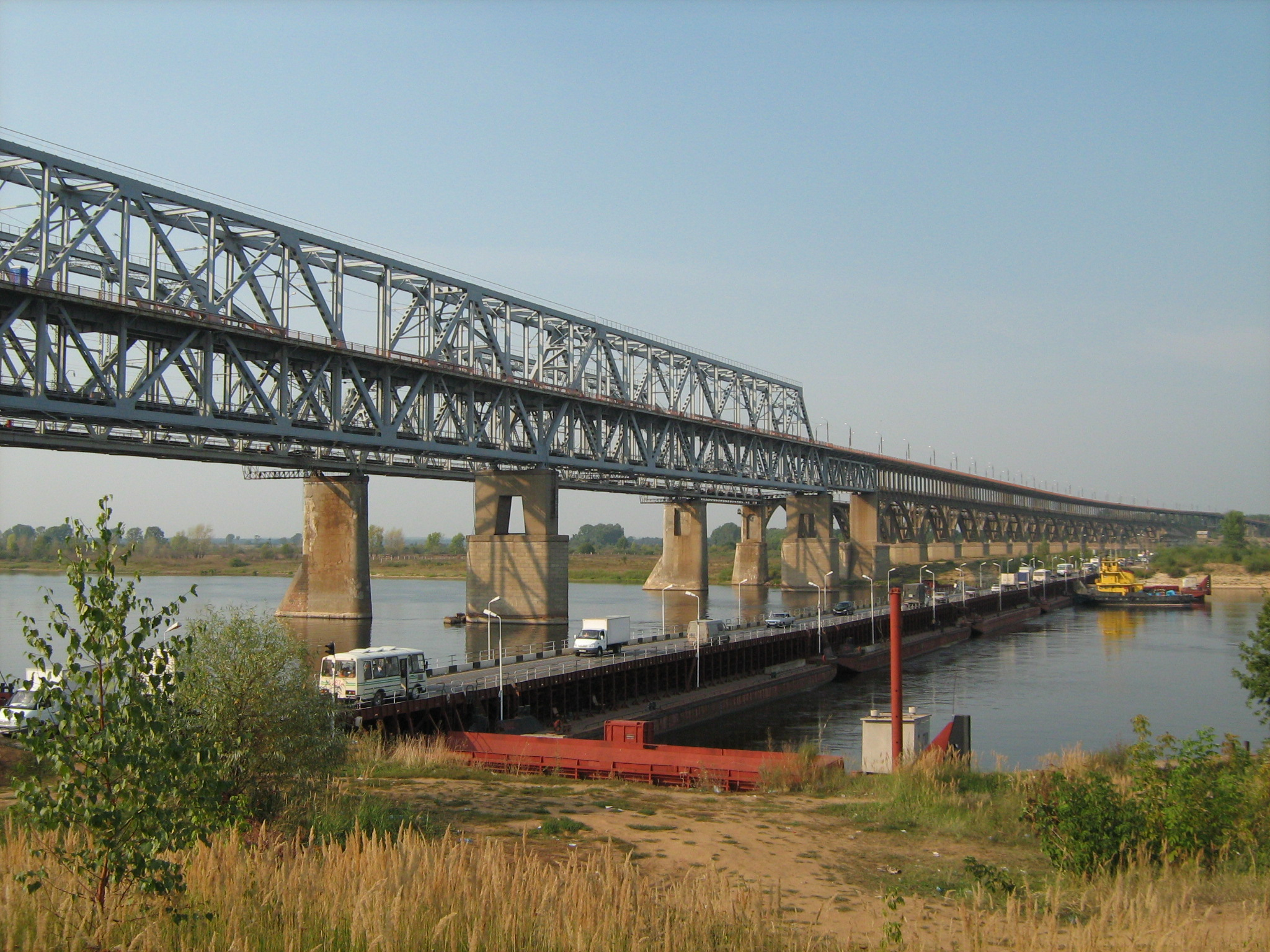 Traffic starts over the floating bridge under the Volga Bridge in Nizhny Novgorod.